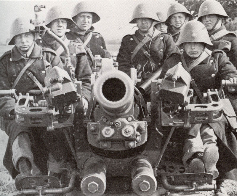 The crew of a Danish anti-aircraft gun undergoing training. This photograph shows the shape of the Danish helmet extremely well.